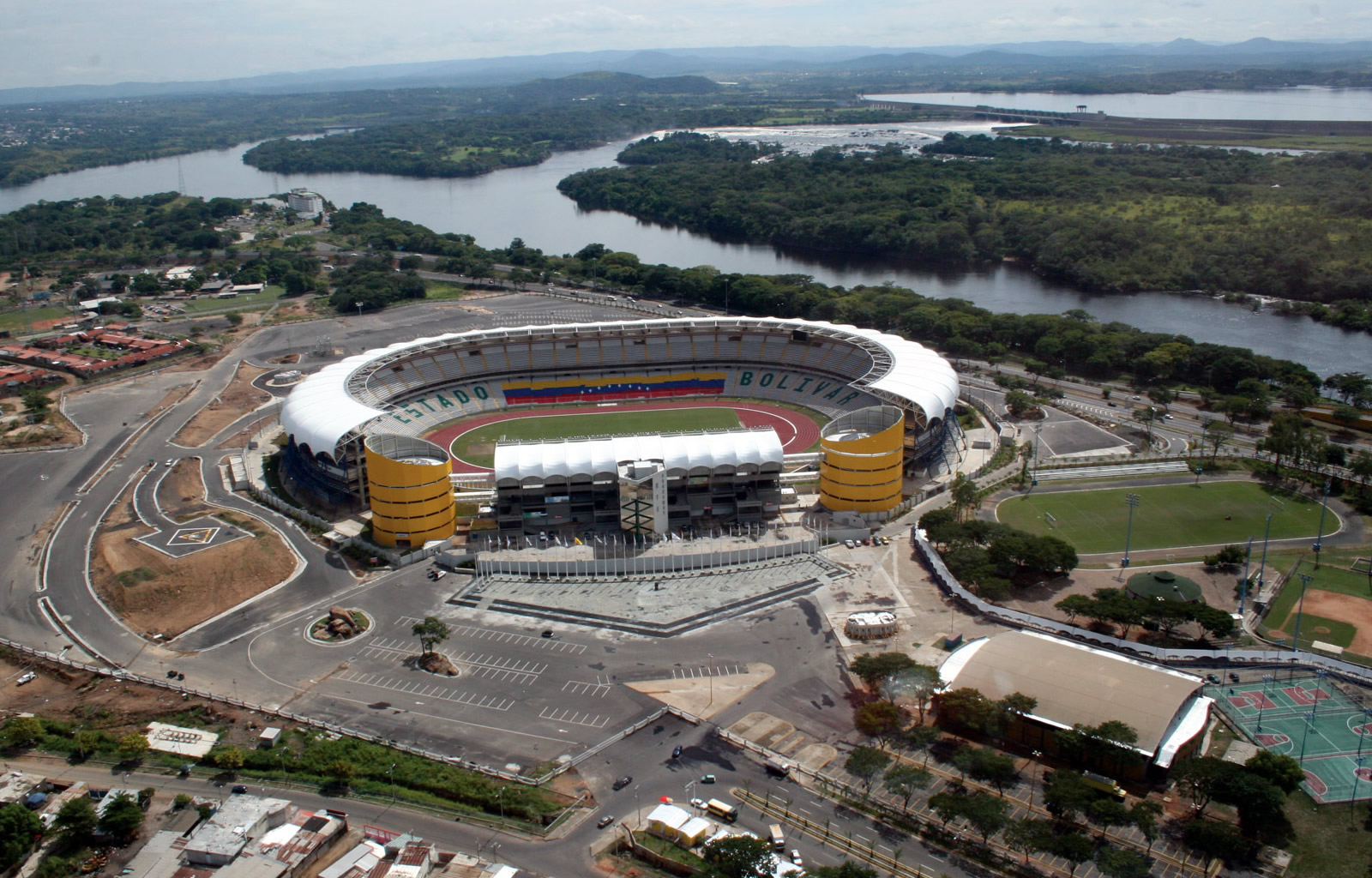 Aerial loca view of CTE Cachamay (center), Following clockwise: the alternating field (Cachamaicito), the softball field, basketball courts and the Hermanas González Gym. At the background is La Llovizna Park, Macagua Power Station and the Cachamay Park.